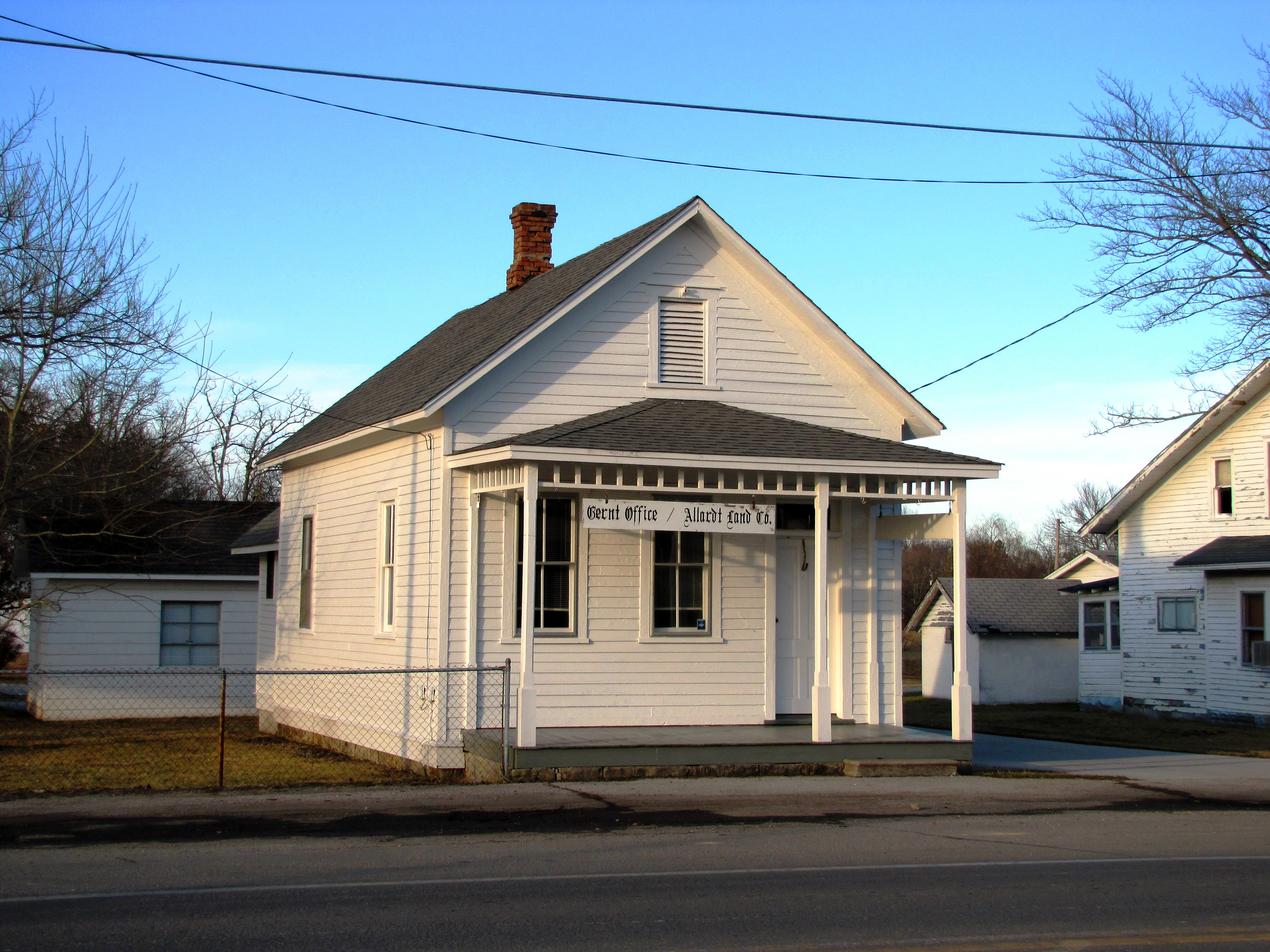 The NRHP-listed Bruno Gernt Office in Allardt, Tennessee, USA.